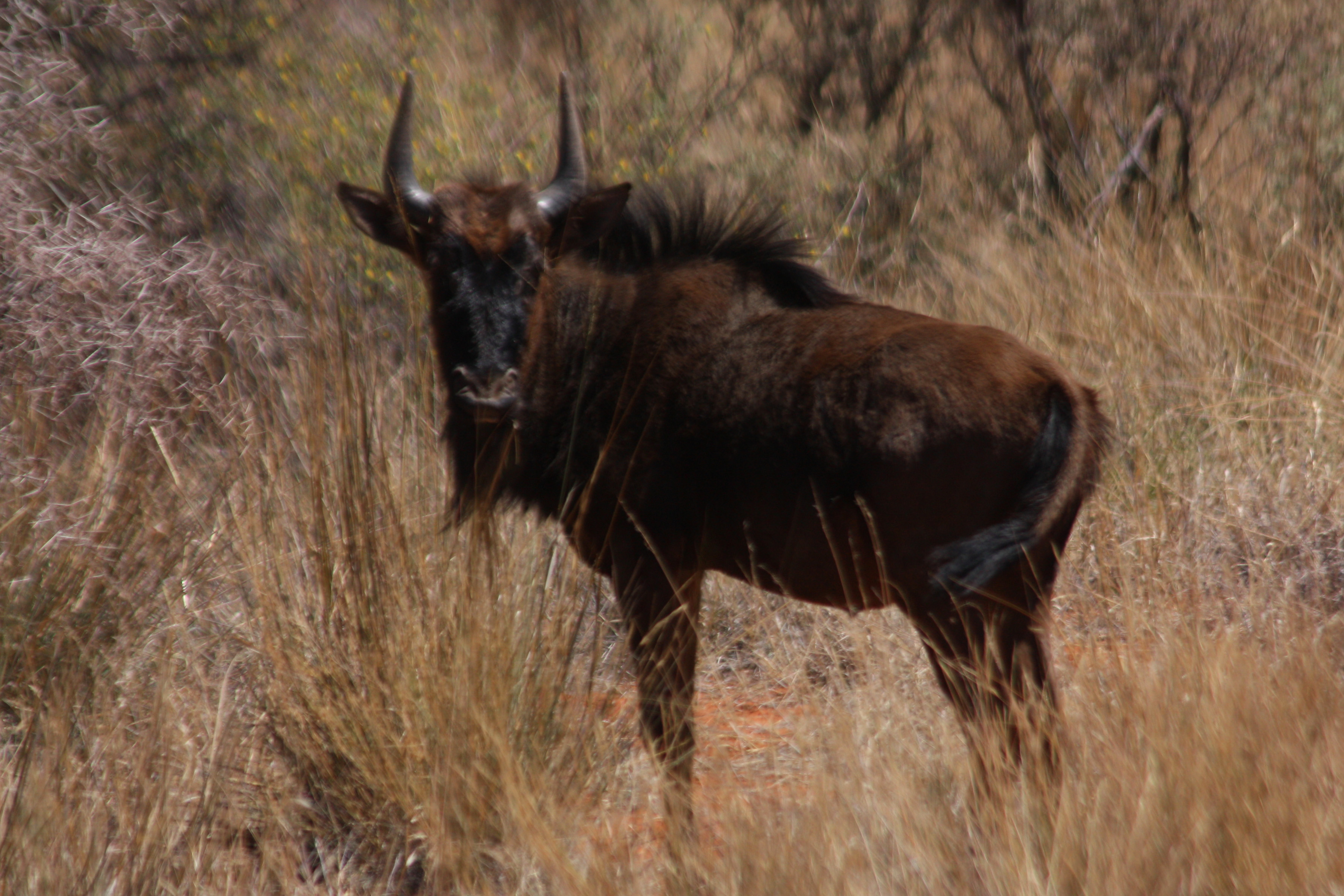 Blue wildebeest (connochaetes taurinus) in the Kalahari desert, South Africa